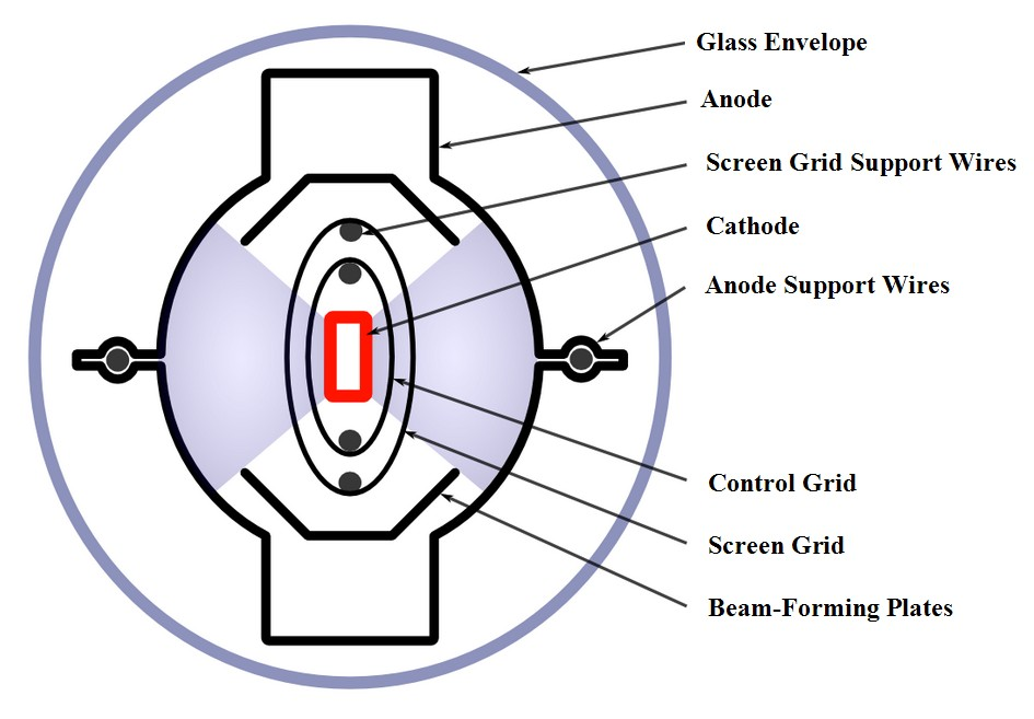 Beam Pentode Cross Section